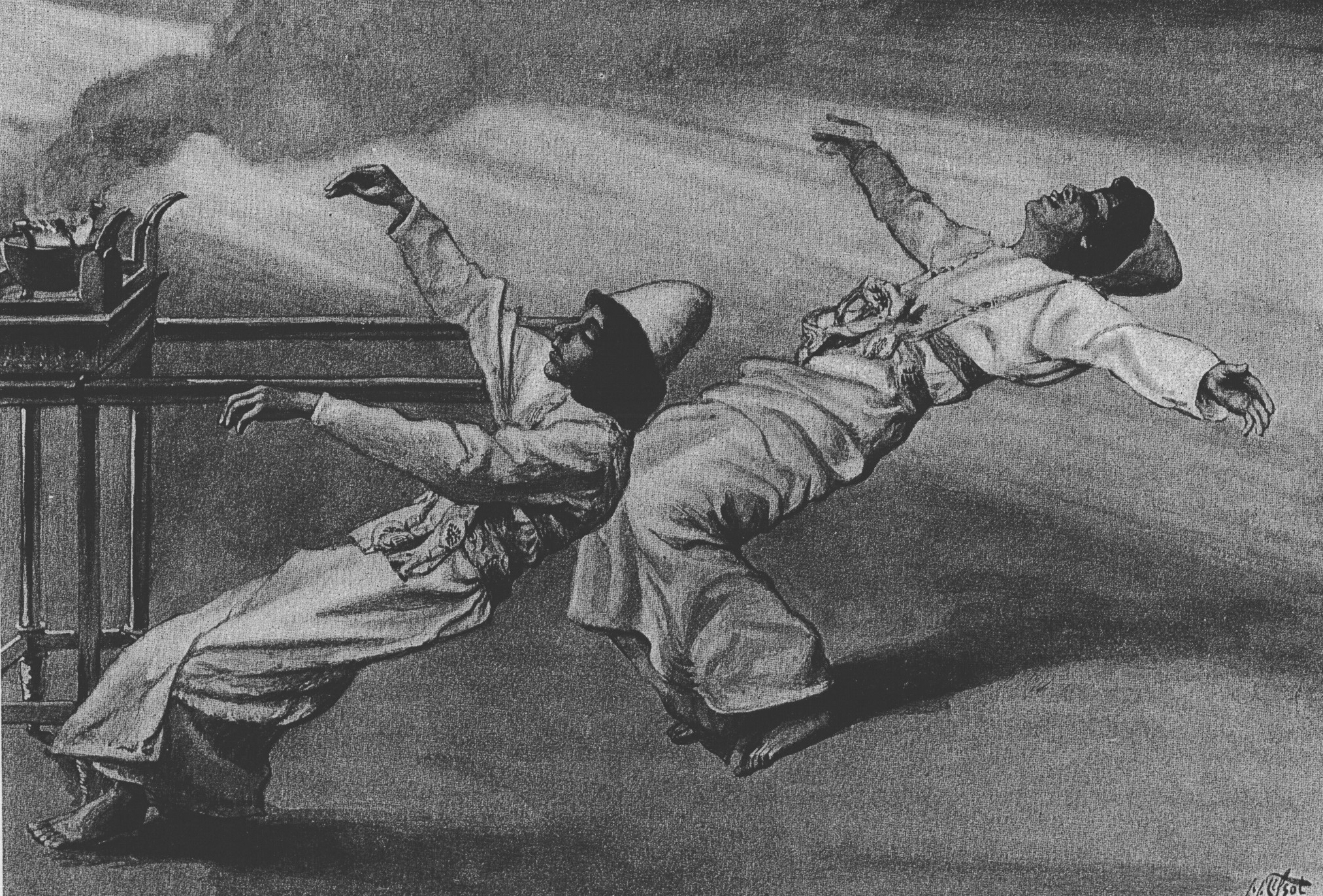 Nadab and Abihu are killed in the Tabernacle, Leviticus 10:2